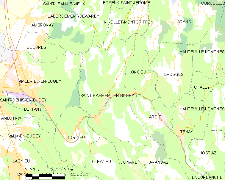 Map of French commune: Saint-Rambert-en-Bugey Map commune FR insee code 01384.png